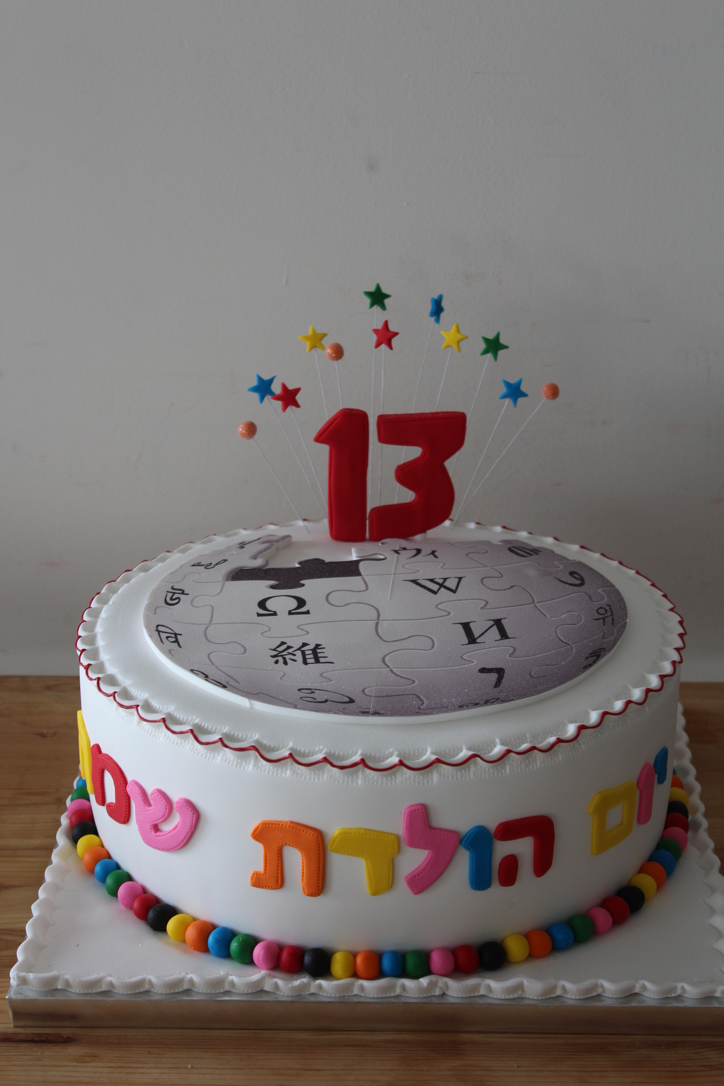 Preparing for Wikipedia's 13th Birthday celebration. Wikimedian meetups in Israel: January 2014